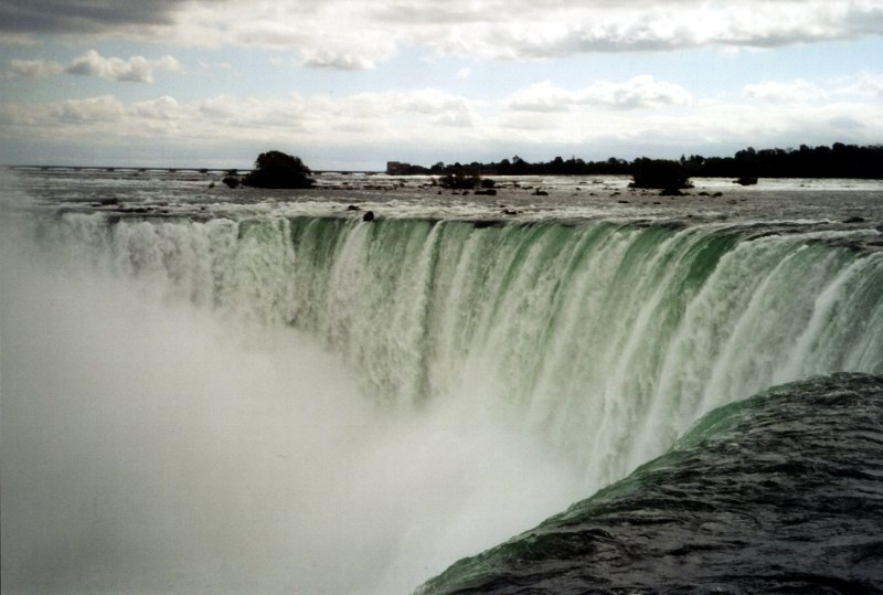 Niagara Falls in Canada